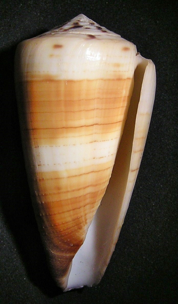 Conus ferrugineus Hwass in Bruguière, 1792 ; the Philippines.